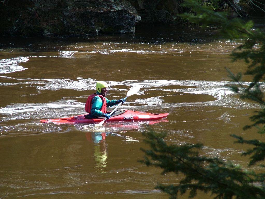 Kayaker Kettle River Aaron Fulkerson